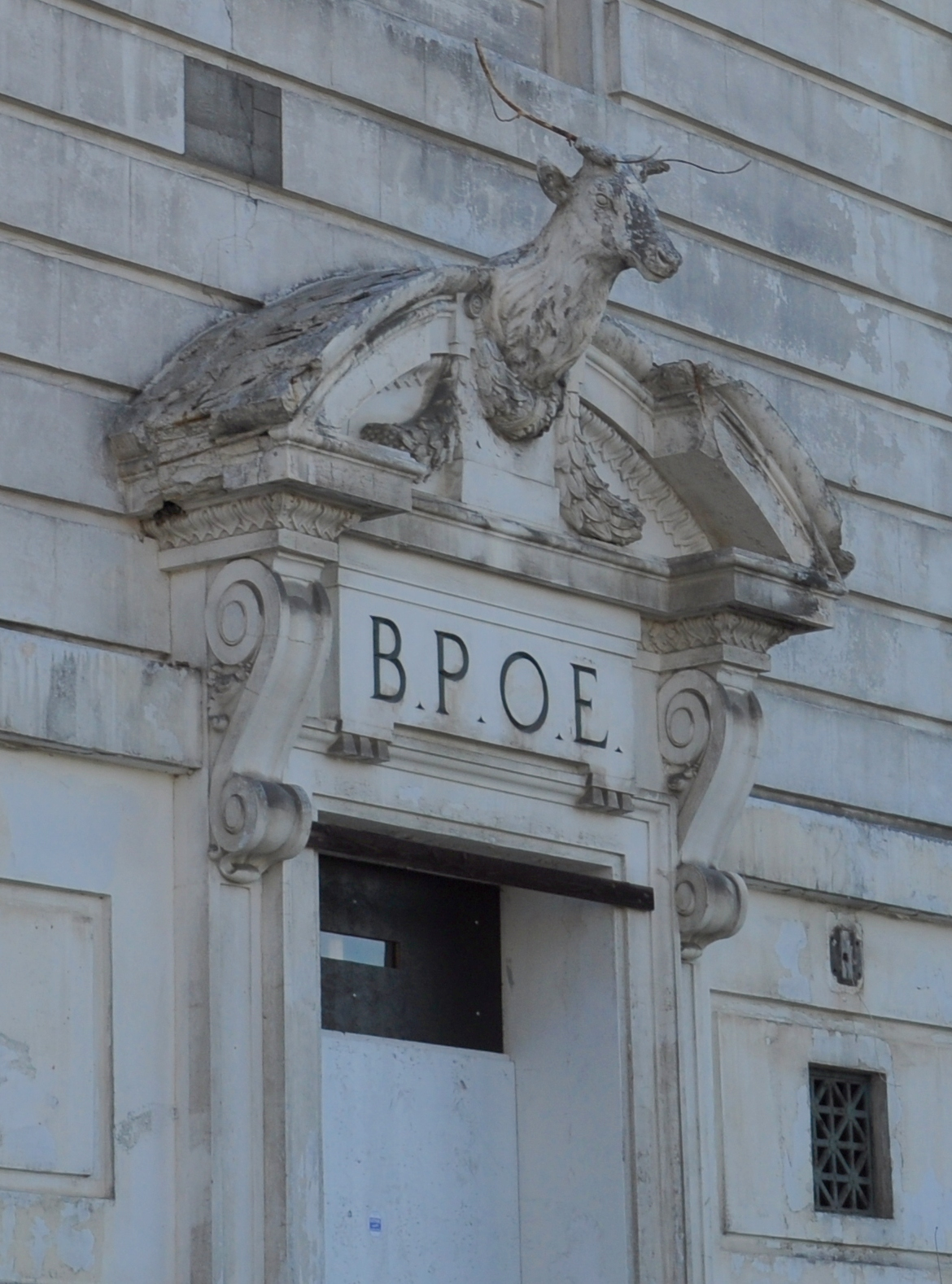 Detail, old BPOE building, Tacoma, Washington. Part of the Old City Hall Historic District, which is listed on the National Register of Historic Places.